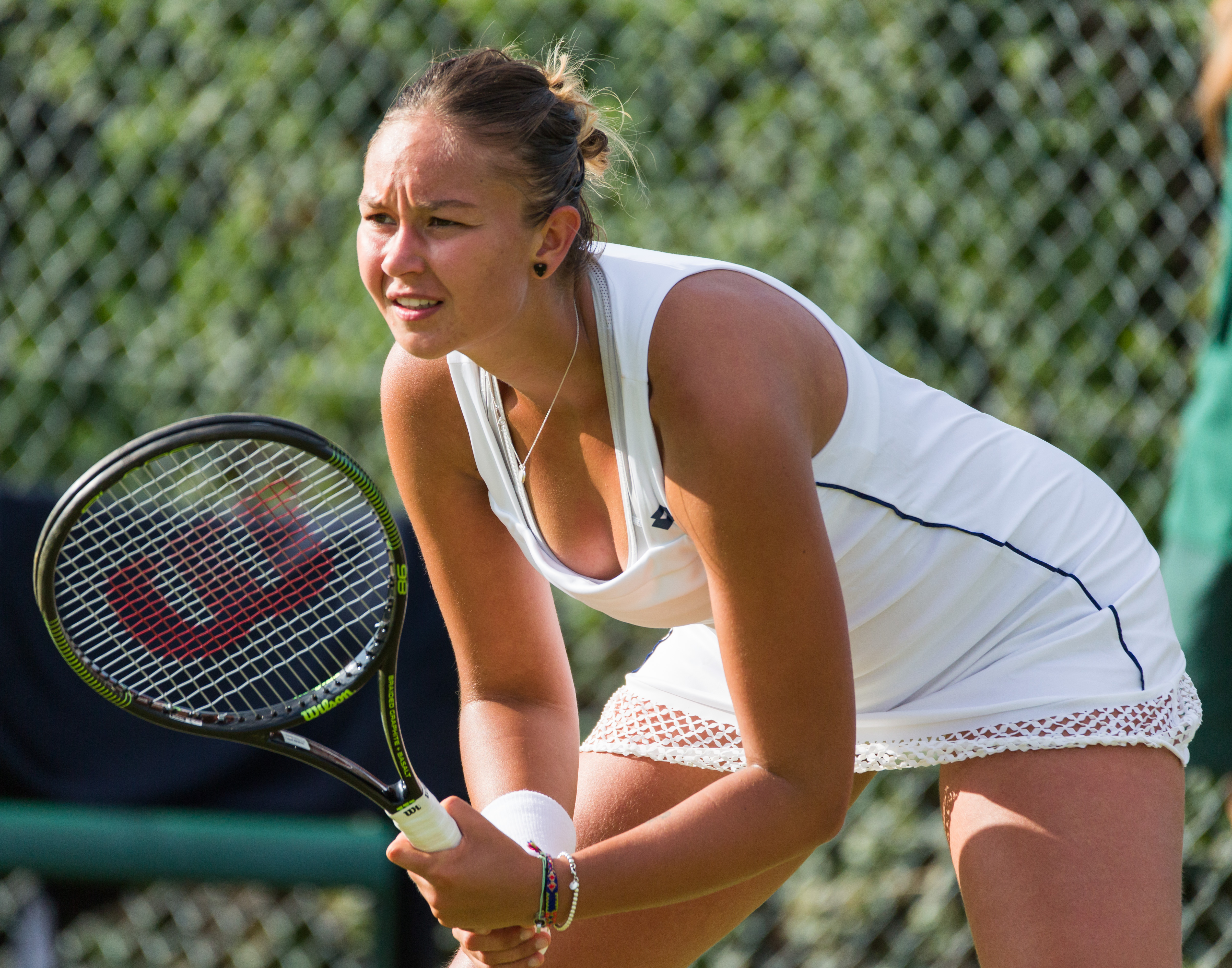 Lesley Kerkhove competing in the first round of the 2015 Wimbledon Qualifying Tournament at the Bank of England Sports Grounds in Roehampton, England. The winners of three rounds of competition qualify for the main draw of Wimbledon the following week.